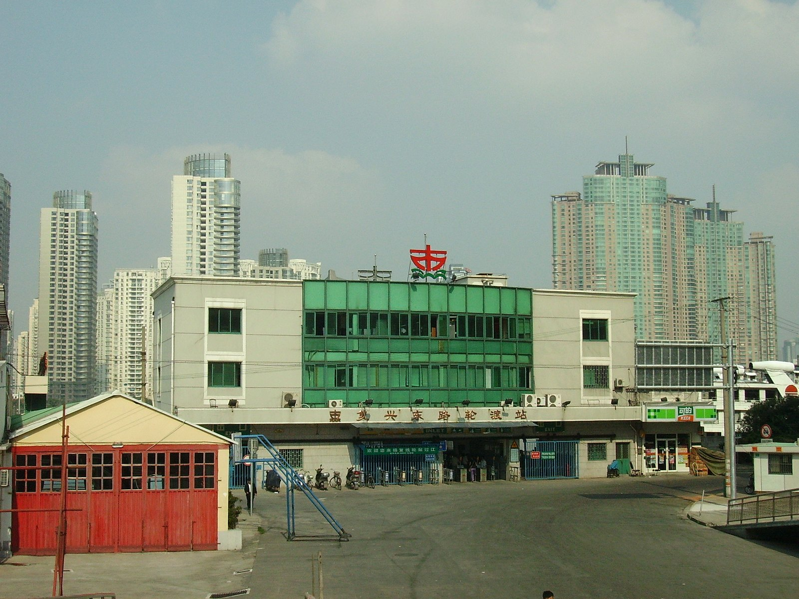 East Fuxing Rd Ferry